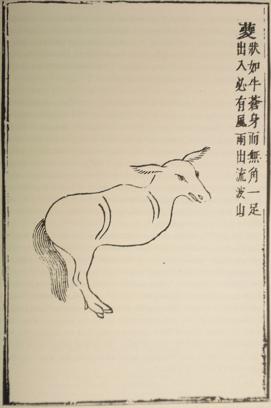 Kui (Wade-Giles, K'uei), a one-legged bull-shaped creature